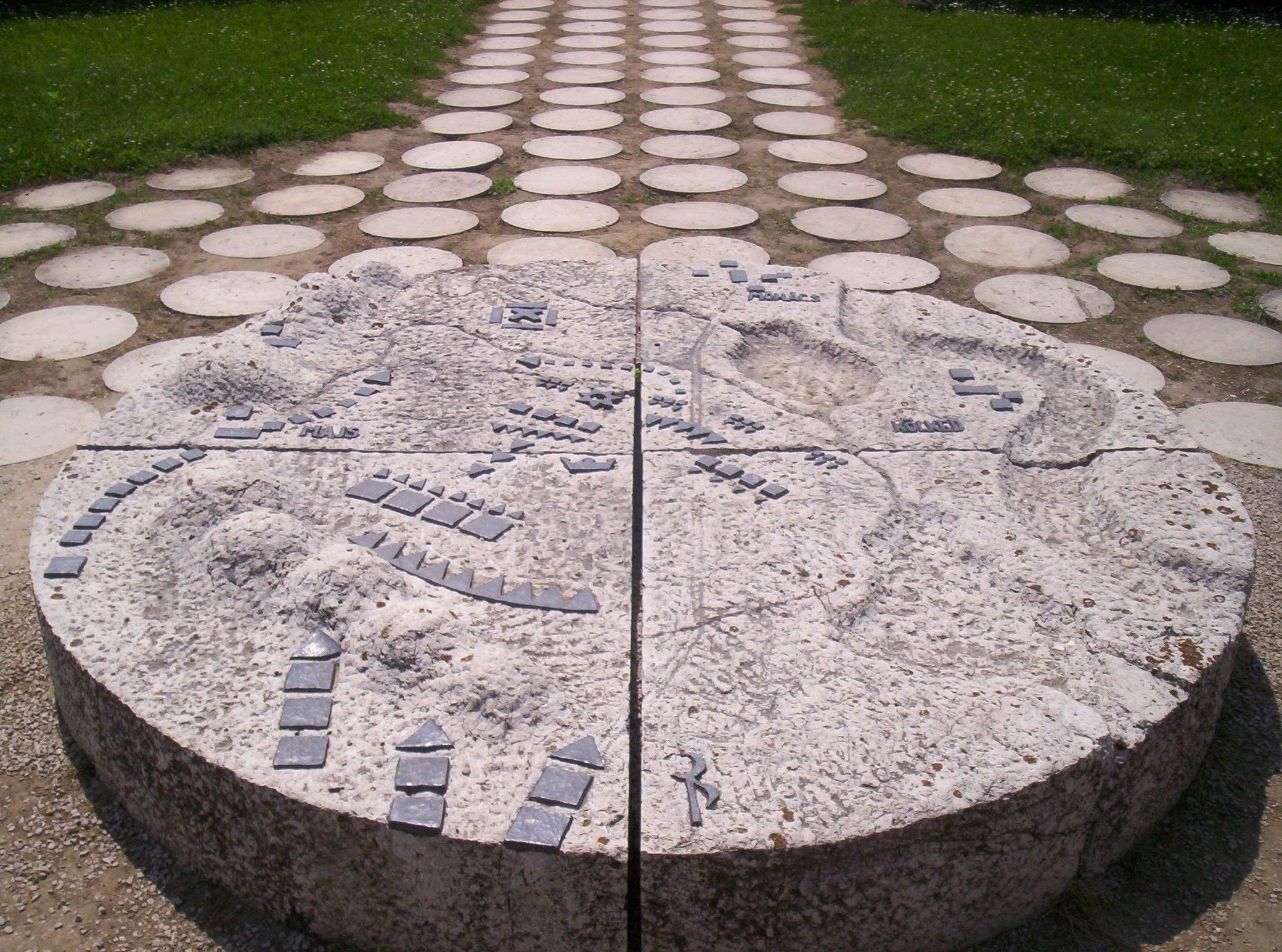 Mohács Historical Monument (Battle of Mohács, 1526) – photo taken by uploader User:Csanády in 2006.